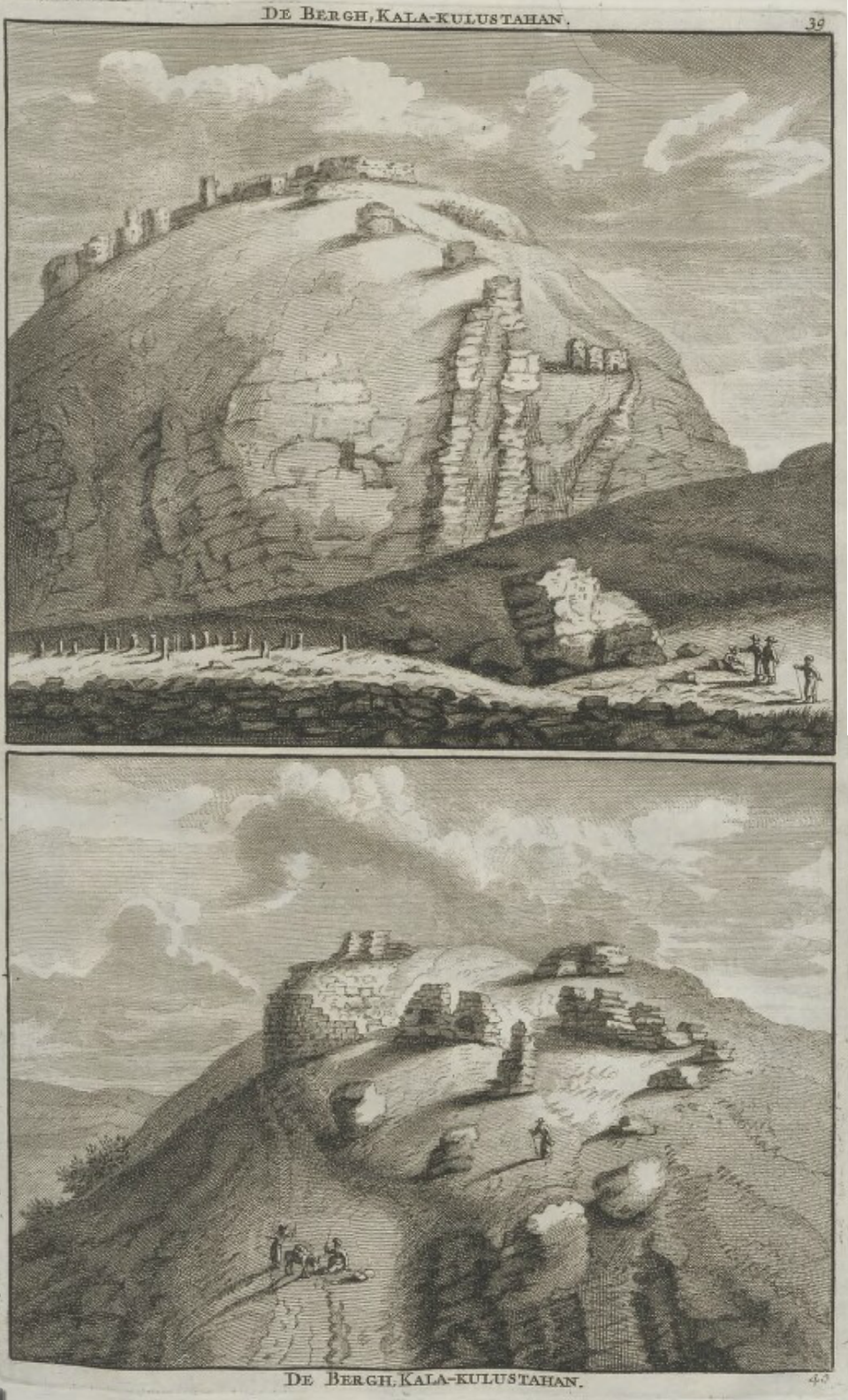 Ruins of Gulustan Castle, Shamakhi by Cornelis de Bruyn